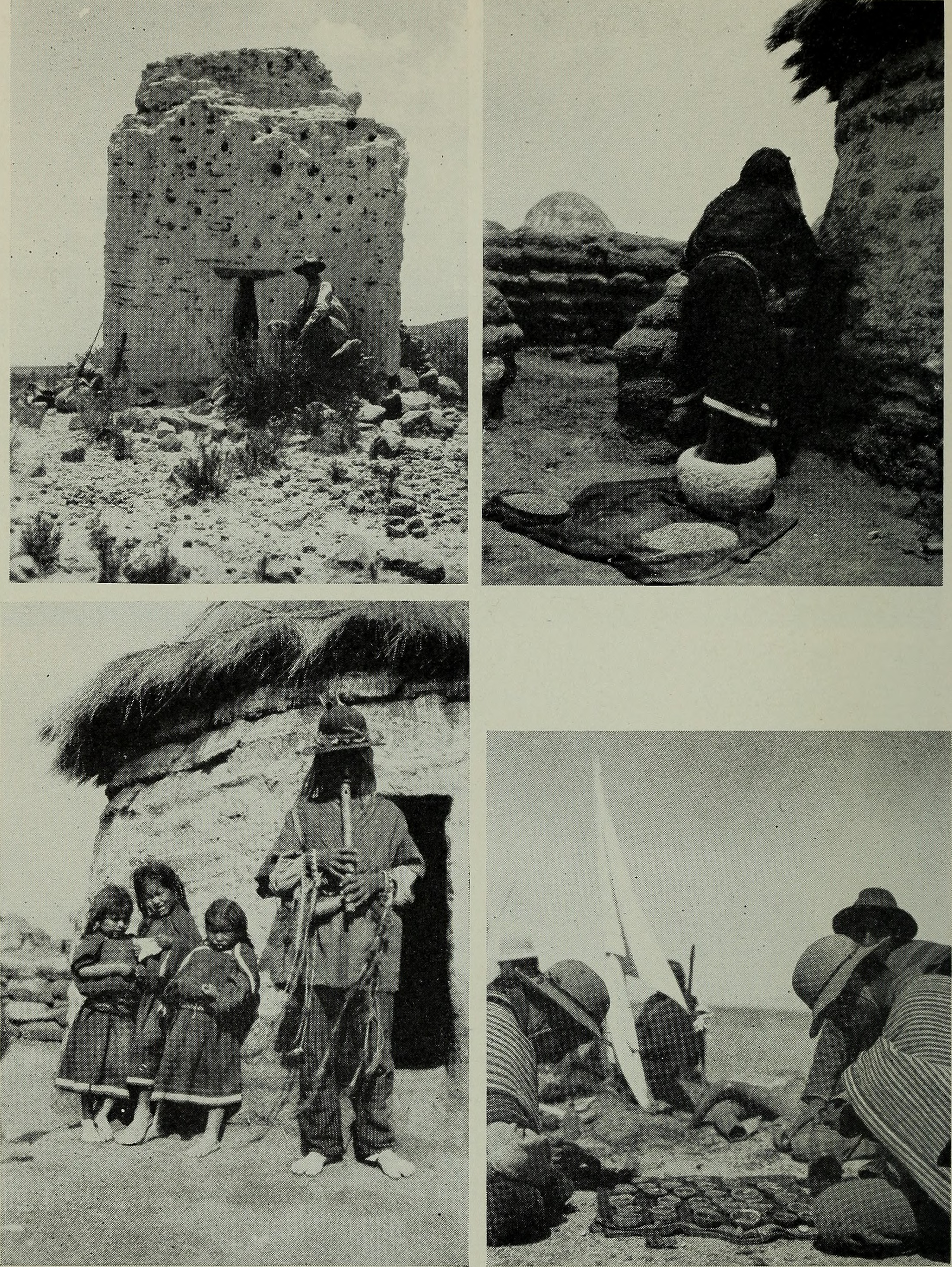 Title: Bulletin Year: 1901 (1900s) Authors: Smithsonian Institution. Bureau of American Ethnology Subjects: Ethnology Publisher: Washington : G. P. O. Text Appearing Before Image: ' Text Appearing After Image: Plate 120.—Chipaya country and Chipaya Indians. Top (left) : Chullpa, or ancient burial tower. Top (right): Woman shelling with feet. Bottom (right): Playing a game. Bottom (left): Dancer. (Courtesy Alfred Metraux).